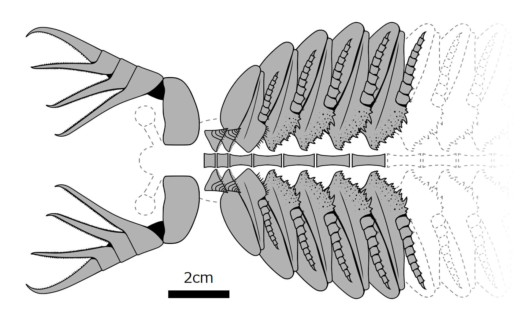 Ventral structures of Parapeytoia yunnanensis, a cambrian megacheiran arthropod previously misidentified as an anomalocaridid (radiodont). Dark grey and light grey area indicating observed structures and unknown region respectively, with the former featured by anterior appendages (great appendages; reduced appendages; gnathobasic biramus appendages) and corresponding sternites.